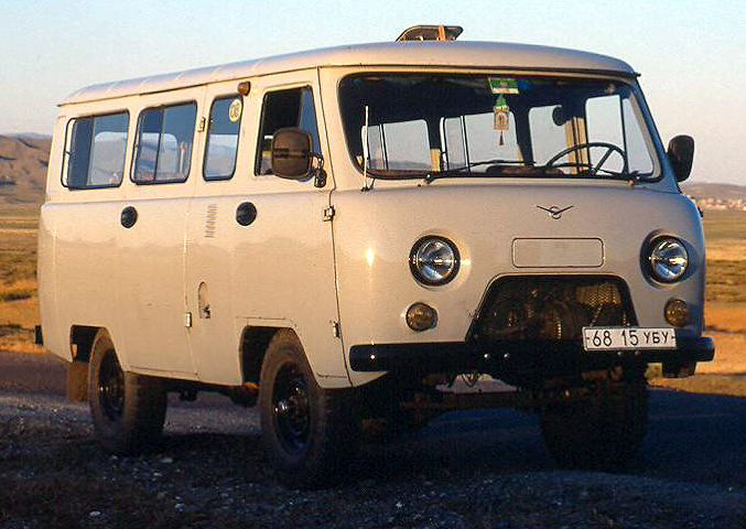 A brand new (1999) UAZ 452 in Mongolia